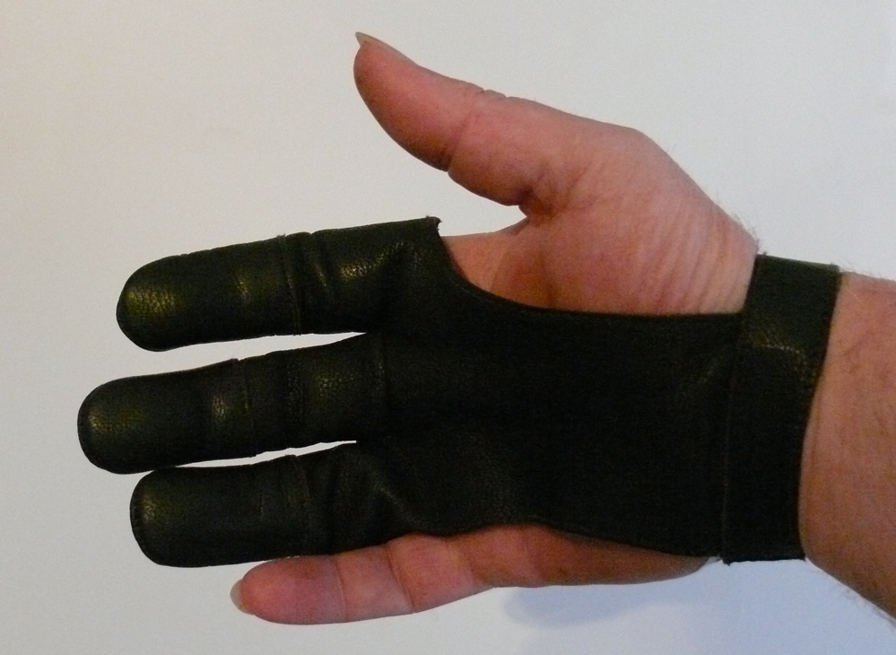 archery glove